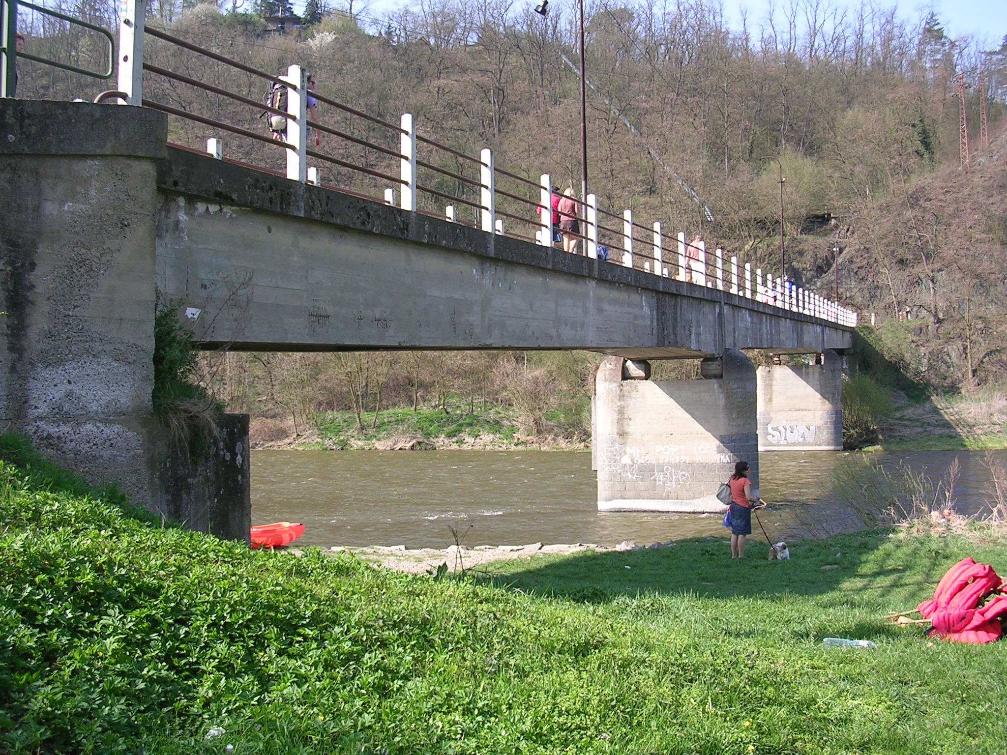 Hradištko-Pikovice and Petrov, Central Bohemian Region, the Czech Republic. Footbridge over the Sázava River.